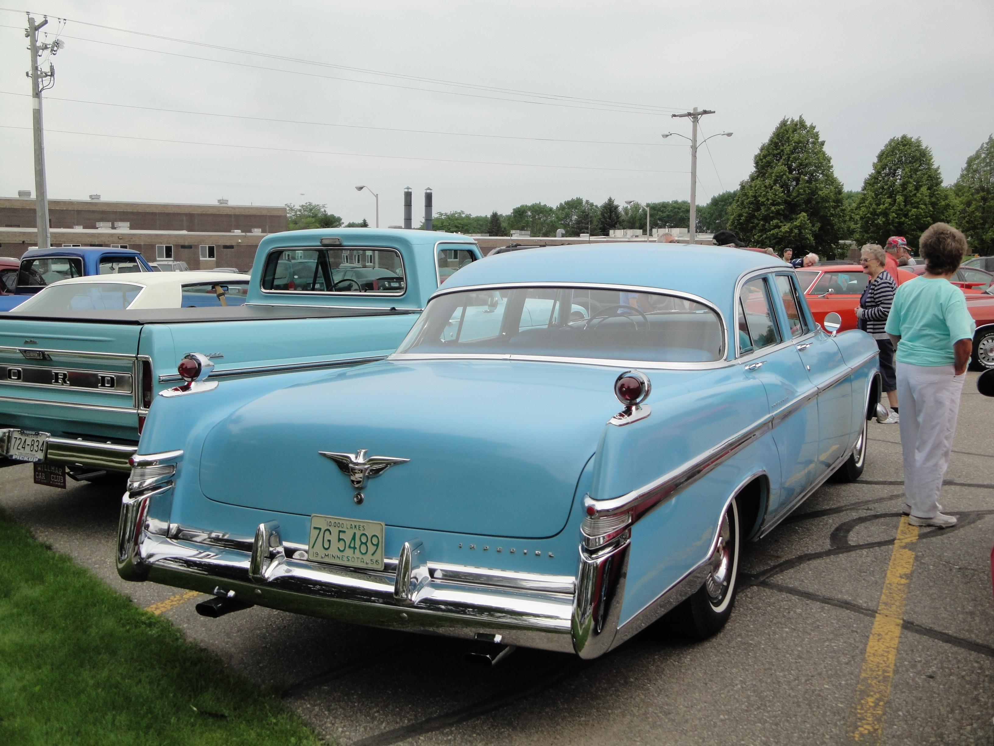 Calvary Lutheran Drive In Night